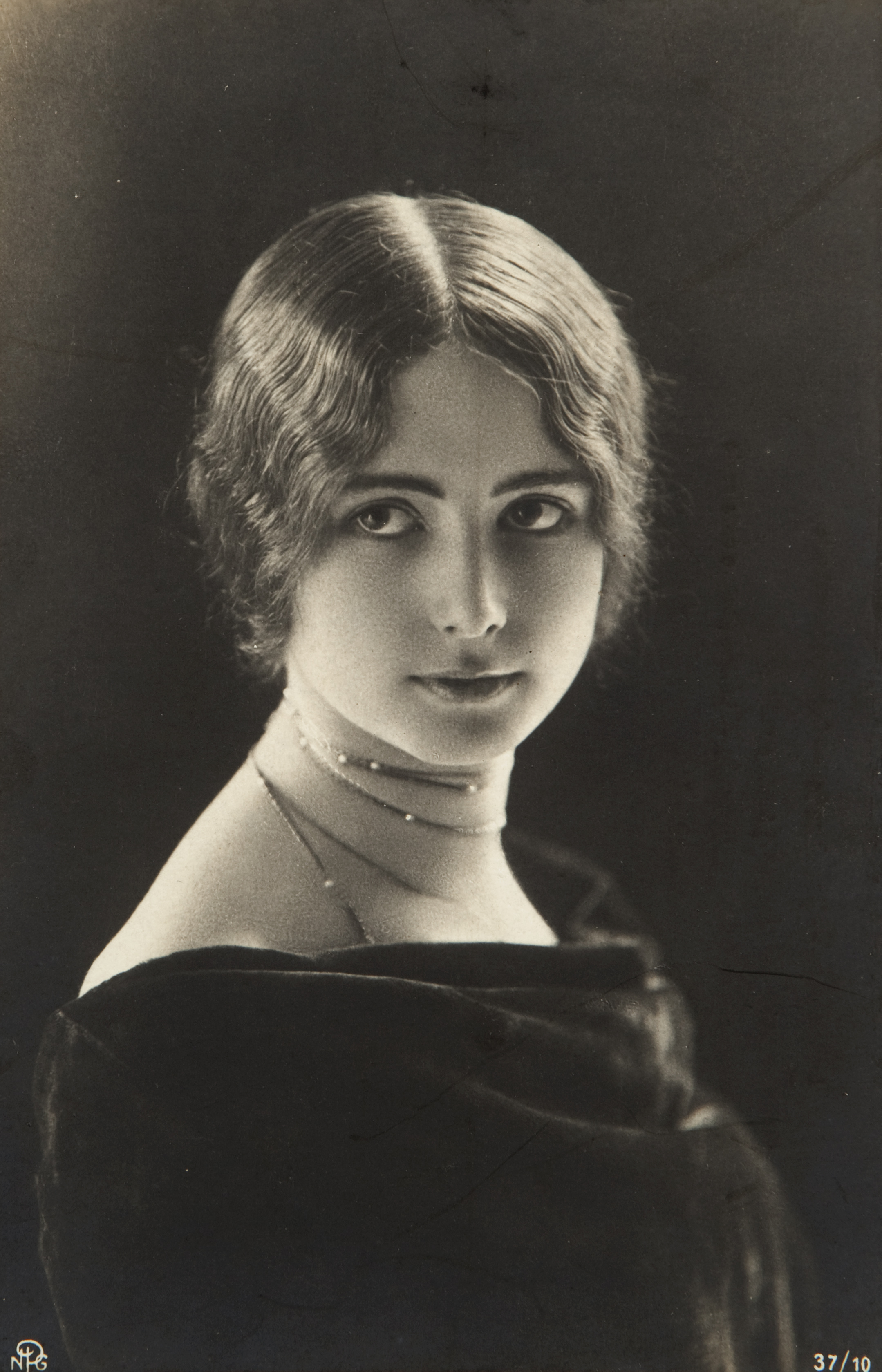 Cleo de Merode